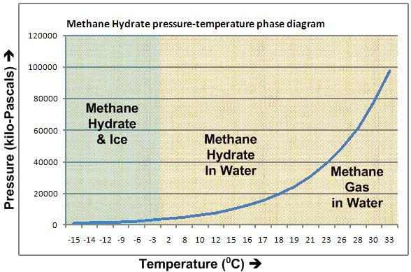 graphic developed based on data from Physical Chemical Characteristics of Natural Gas Hydrate; Book Series: Coastal Systems and Continental Margins; ISSN: 1384-6434; Volume 9; Book: Economic Geology of Natural Gas Hydrate; Publisher: Springer Netherlands; Copyright 2006; ISBN: 978-1-4020-3971-3 (Print) 978-1-4020-3972-0 (Online); DOI 10.1007/1-4020-3972-7_3; Pages 45-104; Earth and Environmental ScienceDate: Sunday, July 09, 2006